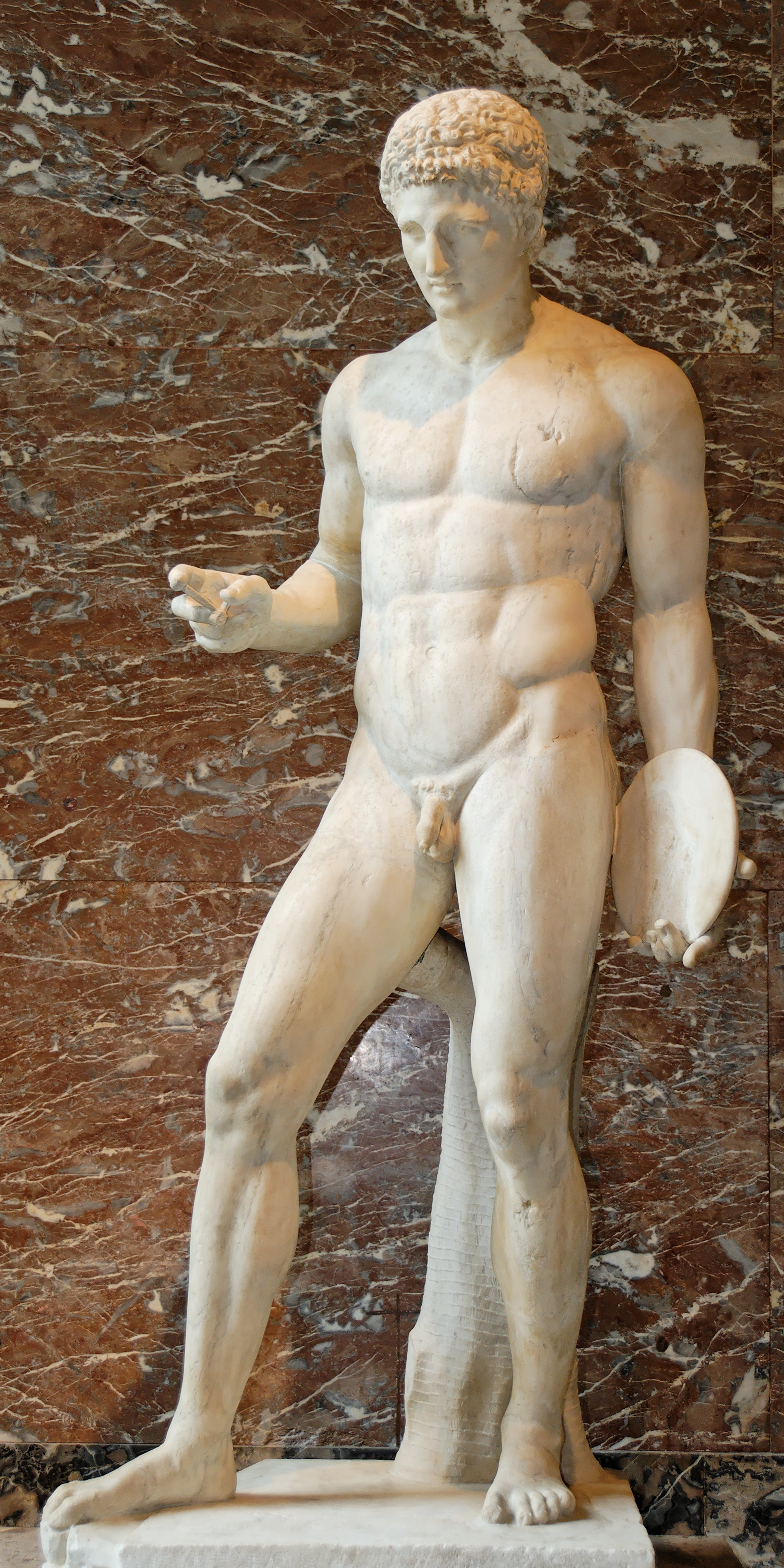 Discophoros (athlete holding a discus). Pentelic marble, Roman copy from the 1st–2nd century AD after an early 4th century BC original by Naukydes. The antique head does not belong to the statue; the right arm, most of the left arm, of the legs and of the base are modern restorations.